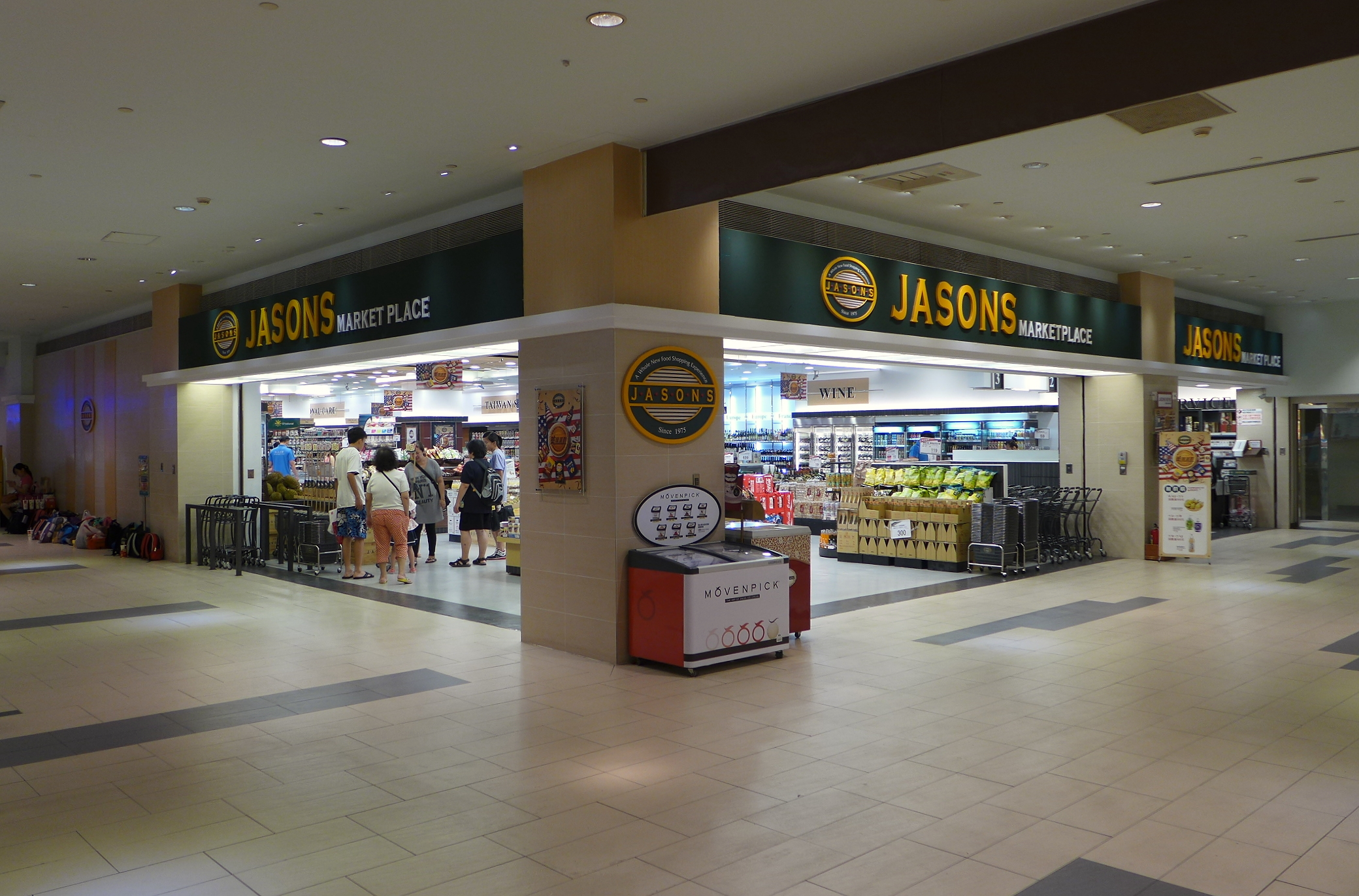 Market Place by Jasons in Kaohsiung Dream Mall